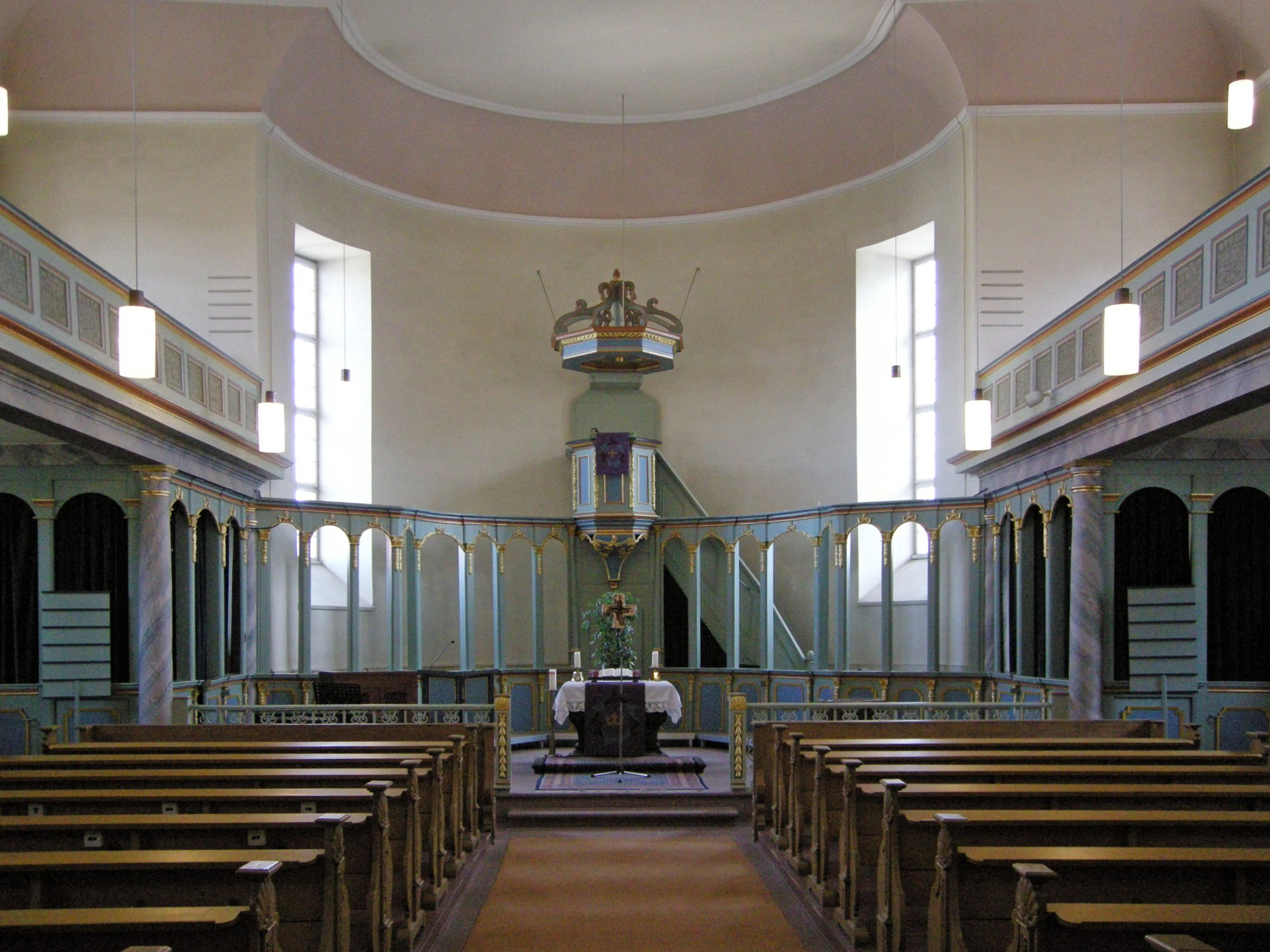 Evangelical Church in Taunusstein-Wehen, constructed in 1810-1812, planned by Carl Florian Goetz (before substantially restoration 2012).